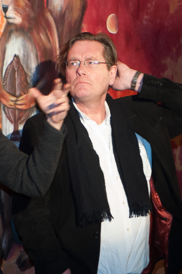 Dag Malmberg at the opening of CinemAfrica Film Festival in Stockholm, Sweden, February 2010